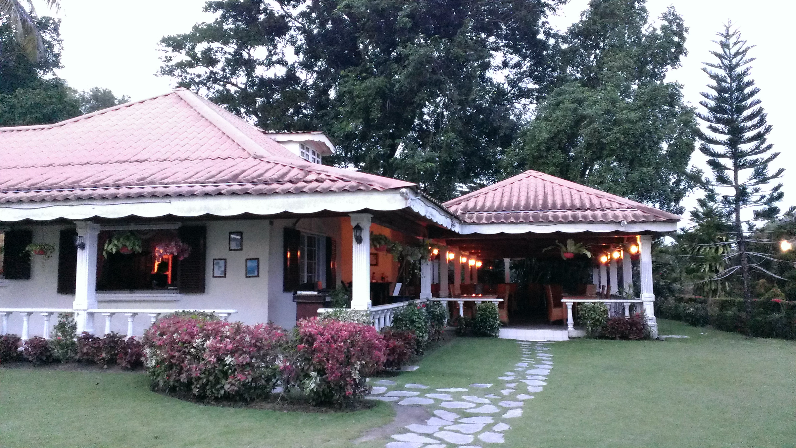 English Tea House_Sandakan